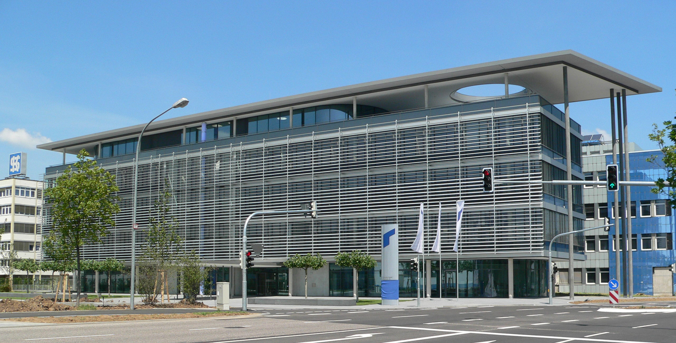 The new Customer Center (from 2007) of the company Kolbenschmidt AG (view from the south), Neckarsulm/Germany, by J. Köhler - 2007